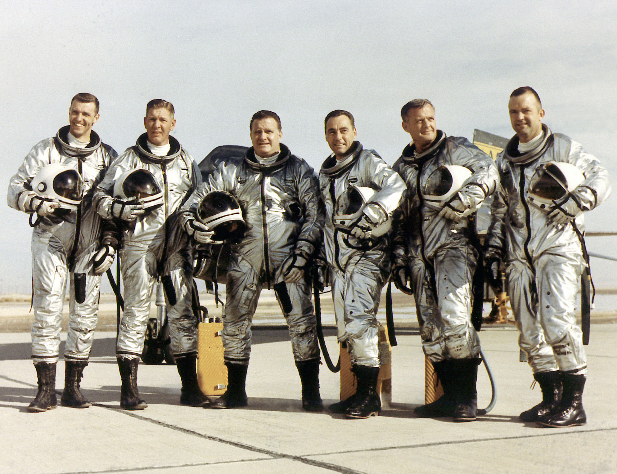 The X-15 flight crew, left to right: Air Force Captain Joseph H. Engle, Air Force Major Robert A. Rushworth, NASA pilot John B. "Jack" McKay, Air Force Major William J. "Pete" Knight, NASA pilot Milton O. Thompson, and NASA pilot Bill Dana. First flown in 1959 from the NASA High Speed Flight Station (later renamed the Dryden Flight Research Center), the rocket-powered X-15 was developed to provide data on aerodynamics, structures, flight controls and the physiological aspects of high speed, high altitude flight. Three were built by North American Aviation for NASA and the U.S. Air Force. They made a total of 199 flights during a highly successful research program lasting almost ten years. The X-15's main rocket engine provided thrust for the first 80 to 120 seconds of a 10 to 11 minute flight; the aircraft then glided to a 200 mph landing. The X-15 reached altitudes of 354,200 feet (67.08 miles) and a speed of 4,520 mph (Mach 6.7).